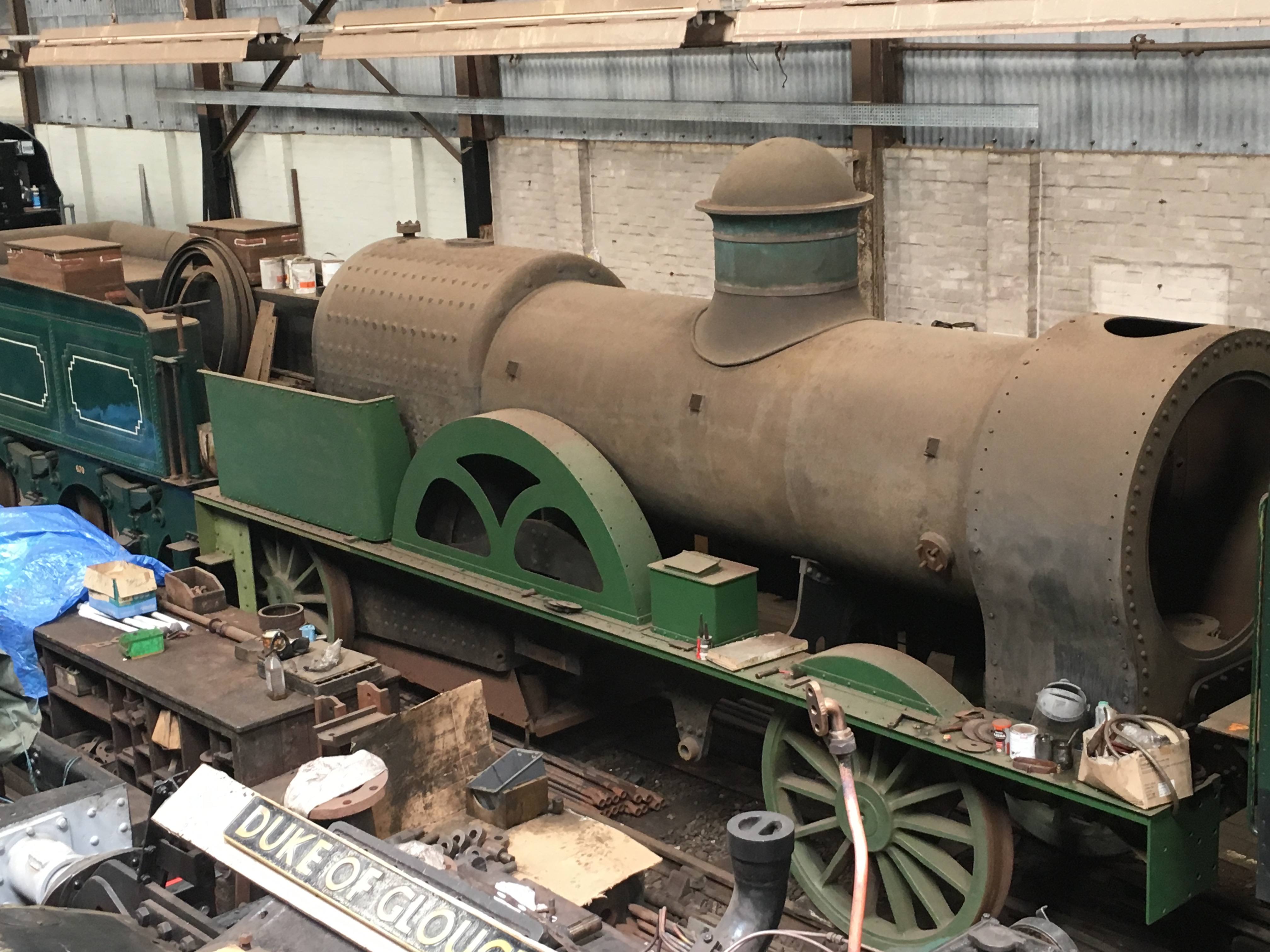 LNWR Bloomer No. 670 2-2-2 at Tyseley is hoped to be finished by 2019.